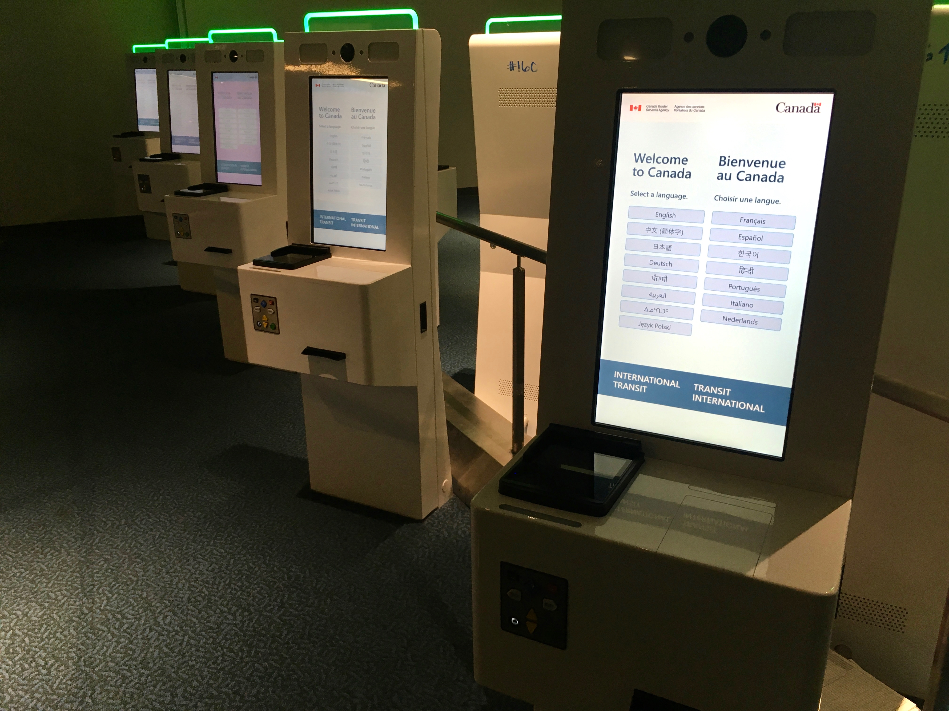 Smartgate for arrivals at Vancouver International Airport, Canada.